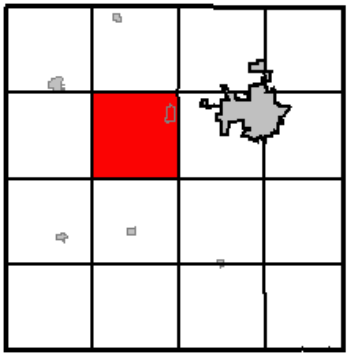 Map of Adams County, Nebraska highlighting Juniata Township; created with the GIMP. Made by User:Acntx.